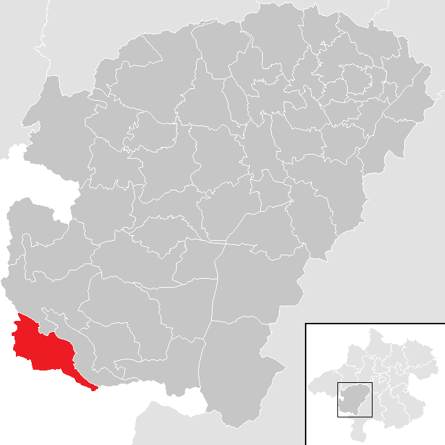 District Vöcklabruck